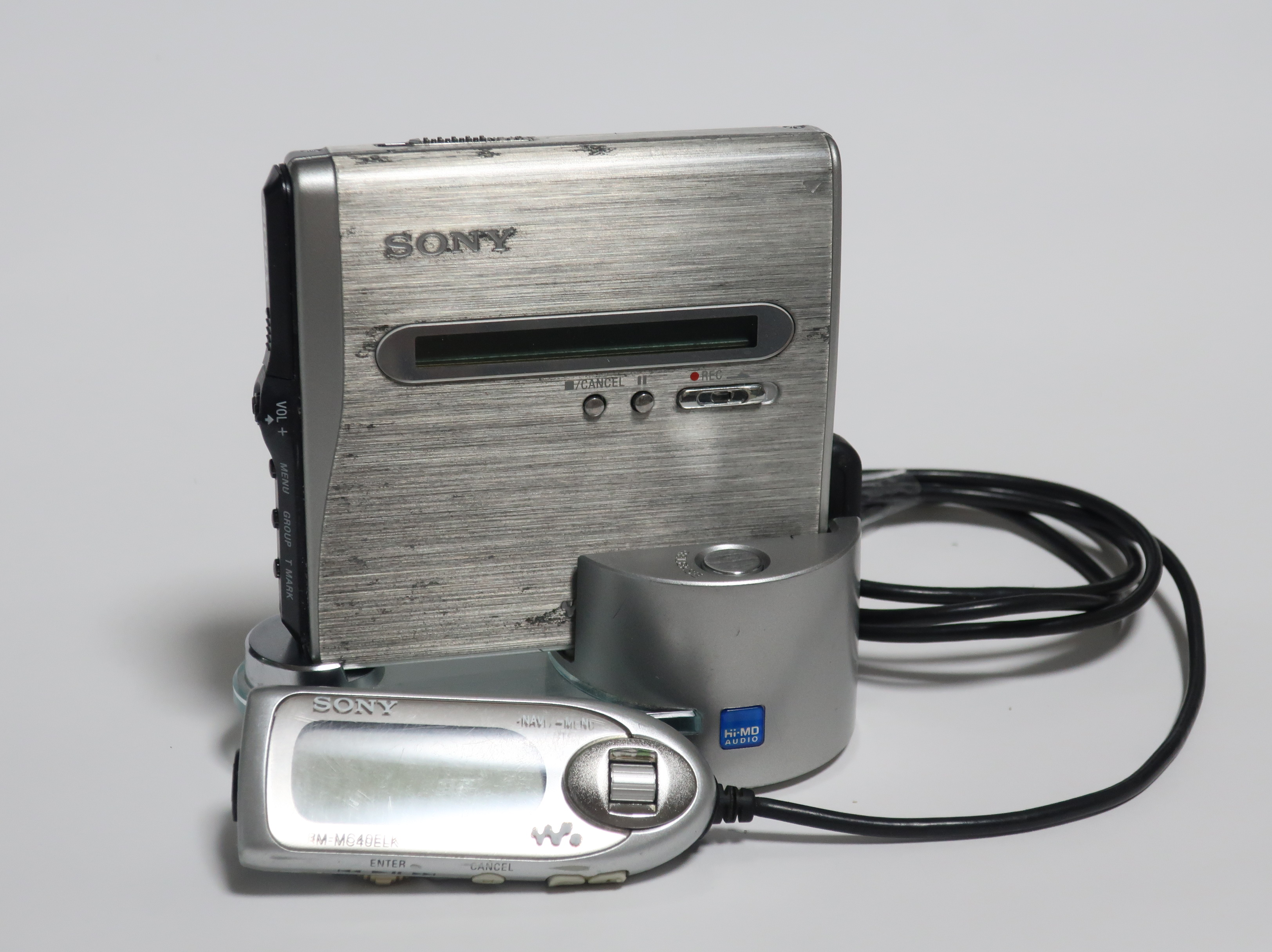 Sony MZ-NH1 Hi-MD Walkman with a wired conrtoller and a battery charger, released in 2004.